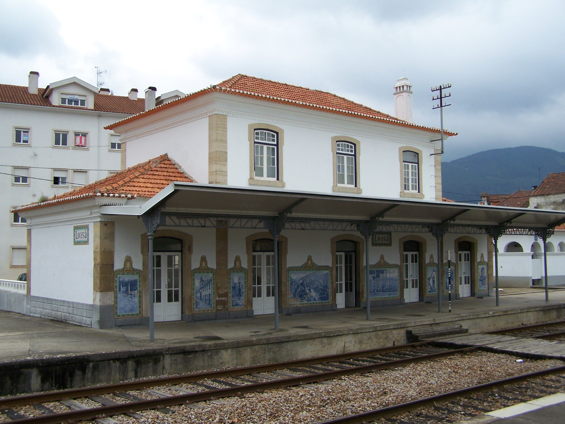 Station Lousã of the portuguese railway line Ramal de Lousã near Coimbra, Portugal